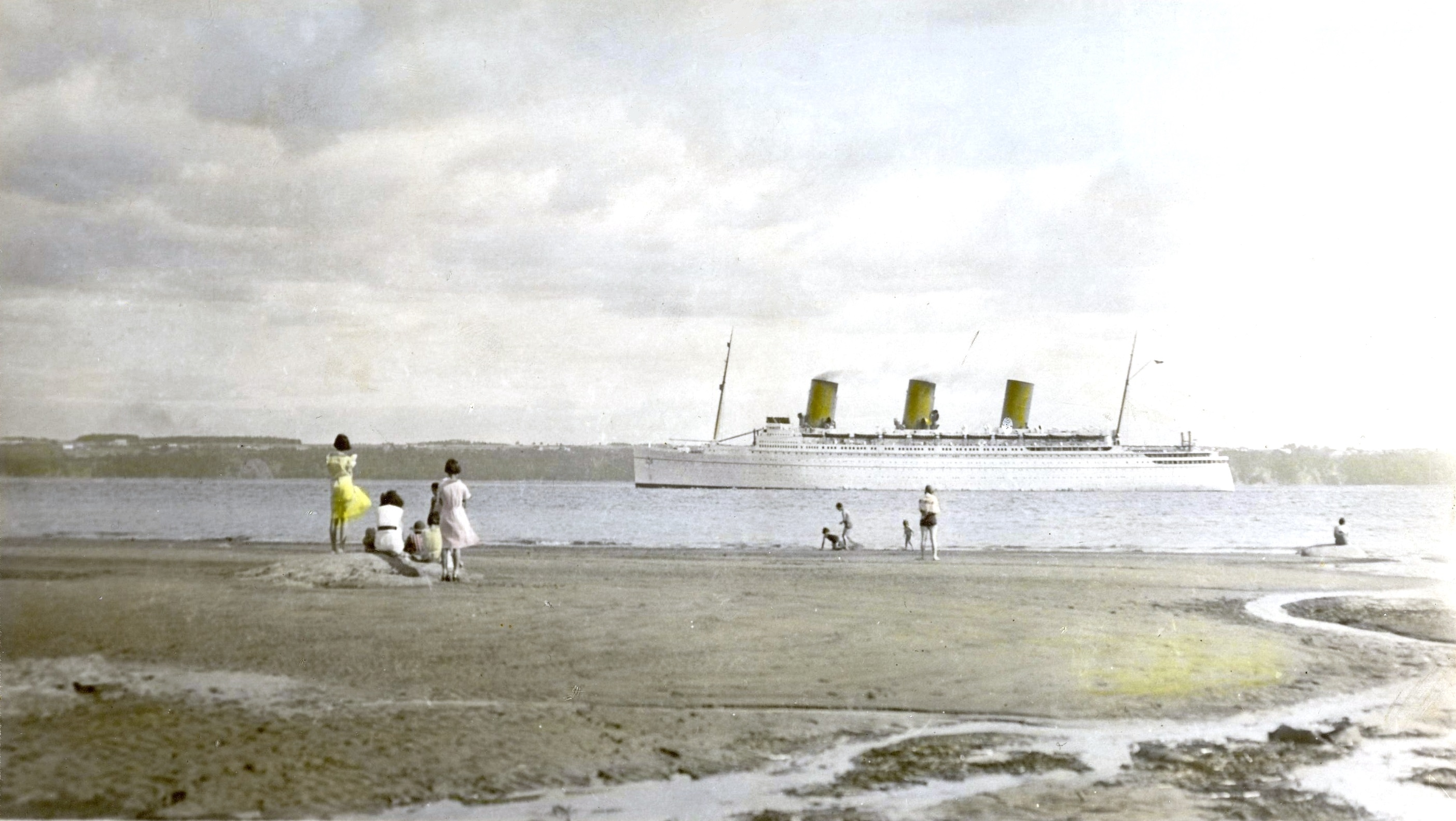 Picture of the Empress of Britain, passing through the Saint Lawrence River near Quebec. Photo taken from the Île Orléans.